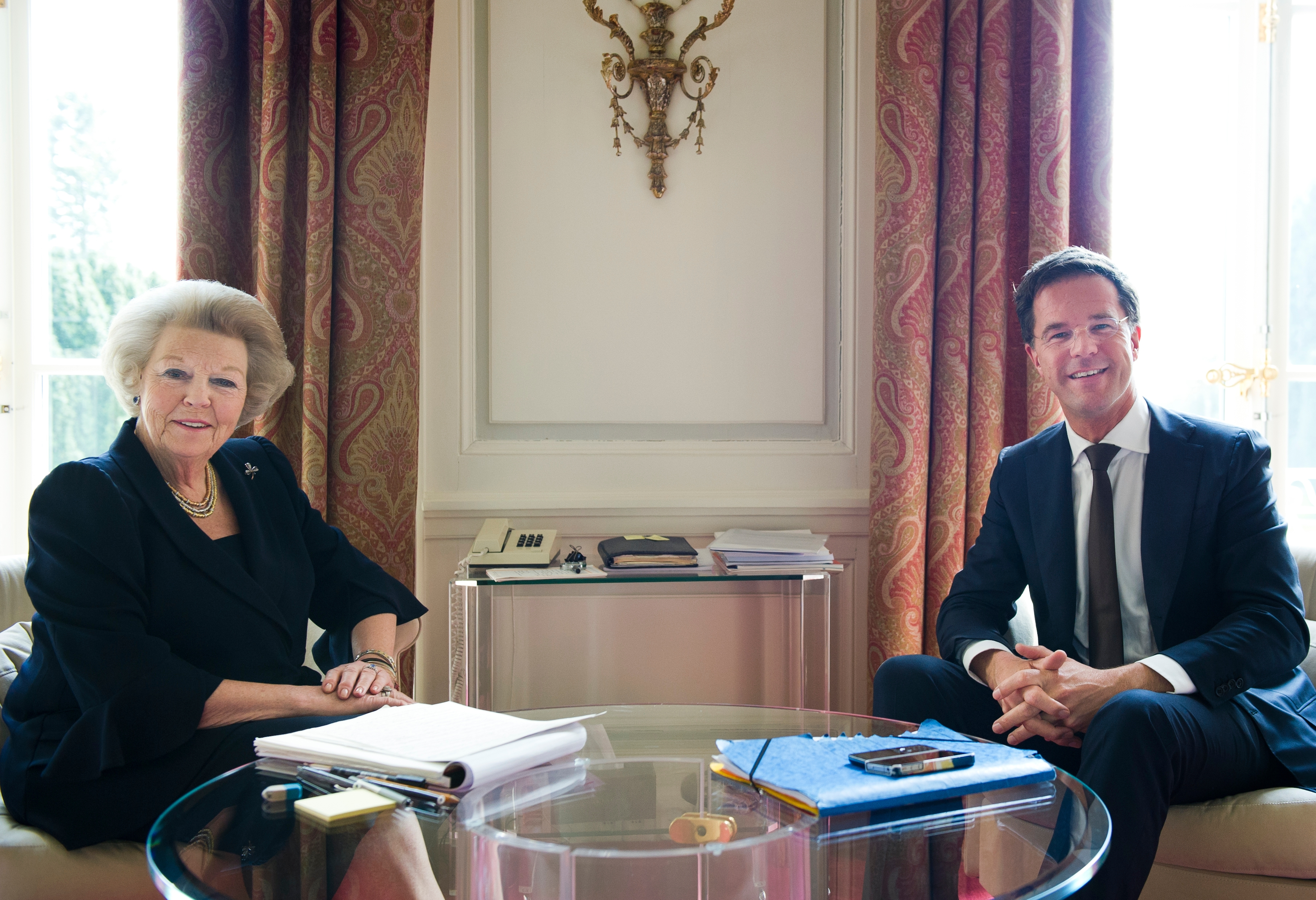 Queen Beatrix of the Netherlands with Prime Minister Mark Rutte at Huis ten Bosch. This is the last meeting of the Queen and the Prime Minister before the Prince of Orange will become King.